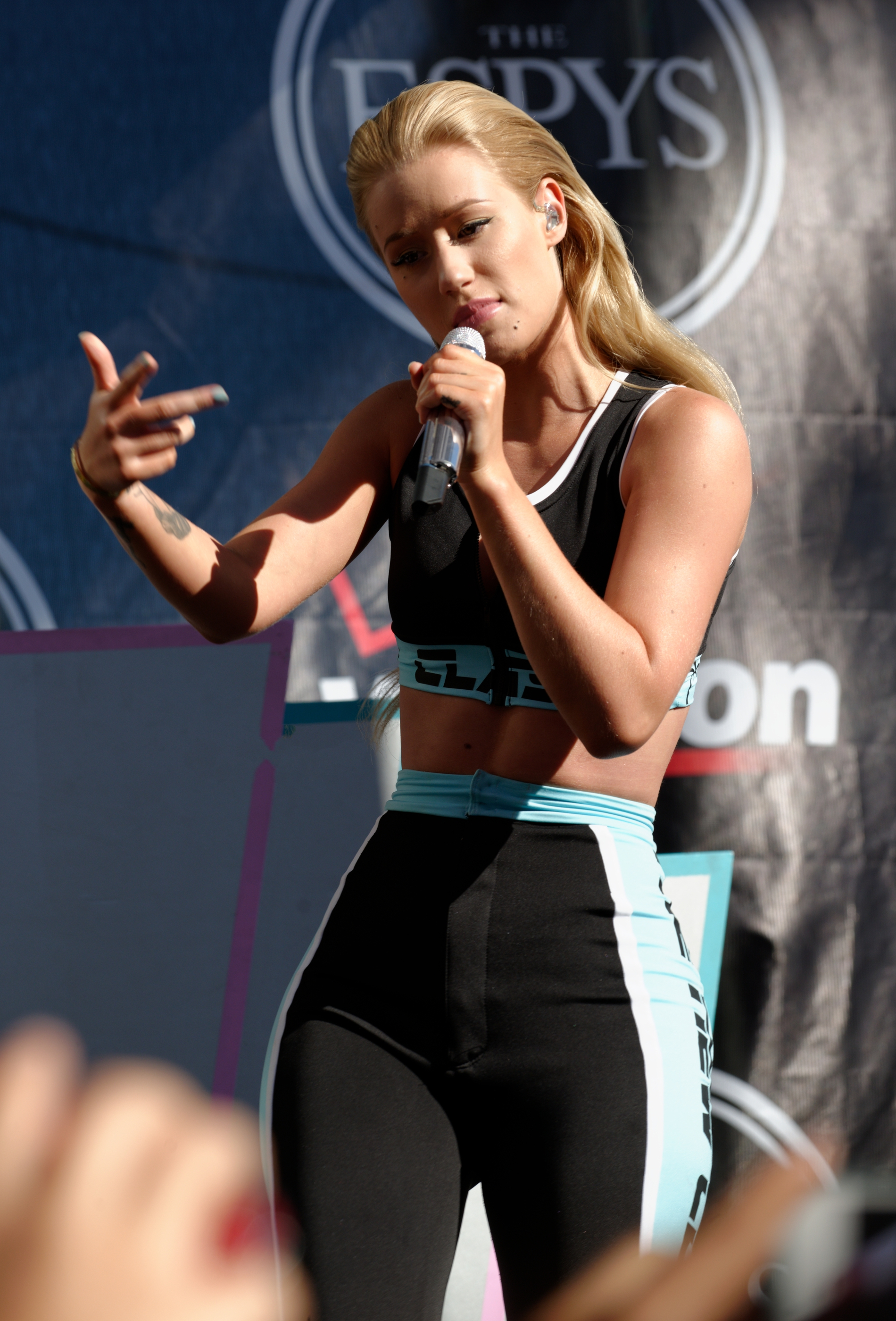 Iggy Azalea performing live at the ESPYs Experience (the ESPY Awards Pre-Show) on Nokia Plaza at L.A. Live in downtown Los Angeles California on Wednesday July 16th, 2014.